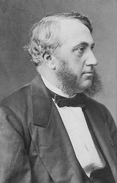 Jhr.Mr. C.J.A. den Tex (1824-1882), mayor of Amsterdam from 1868 to 1880